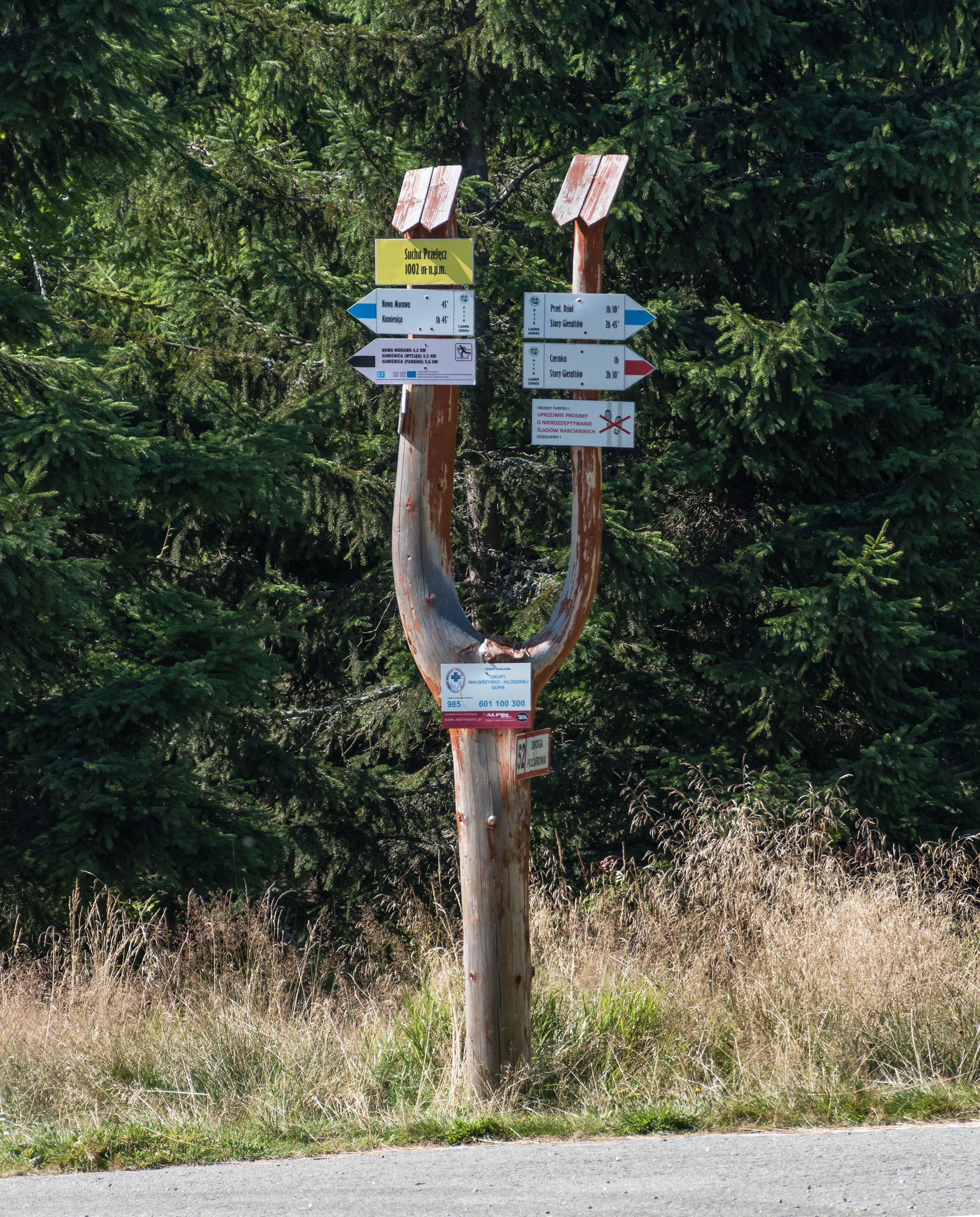 Sucha Pasa, Bialskie Mountains, Sudetes